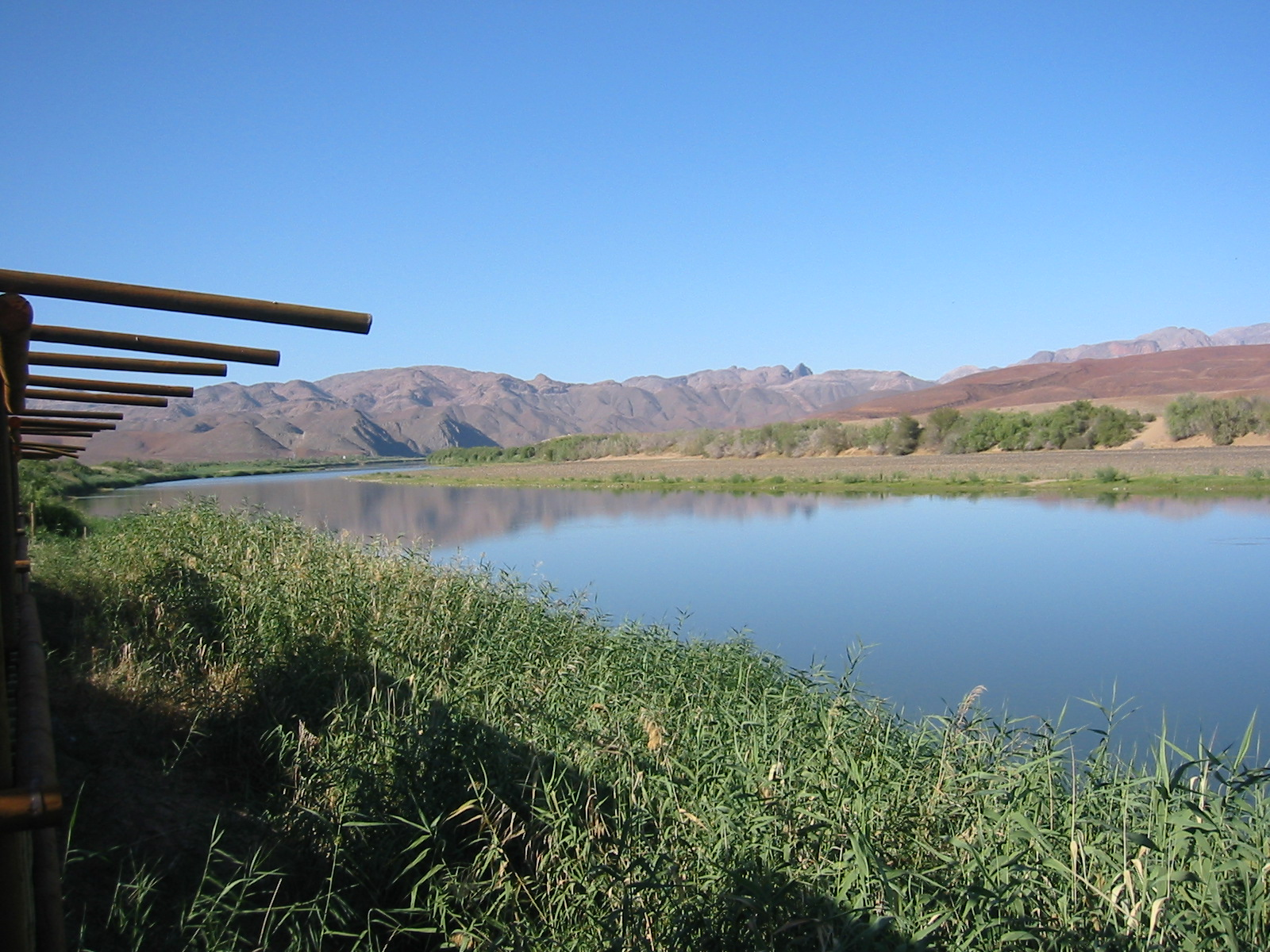 A room with a view: From the balcony at a small little cabin at the Norotshama River Resort.